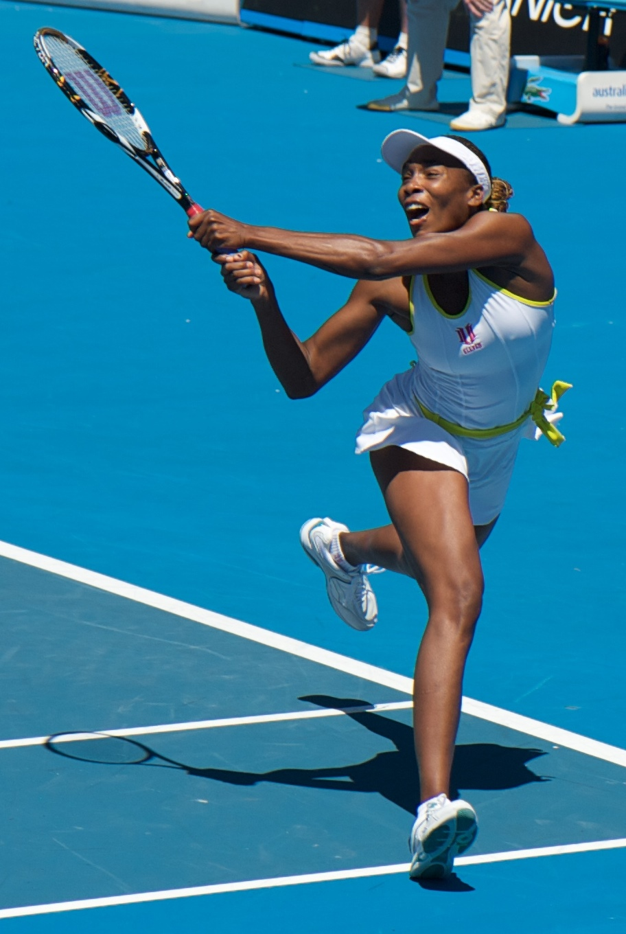 Venus Williams at 2009 Australian Open, Melbourne, Australia.